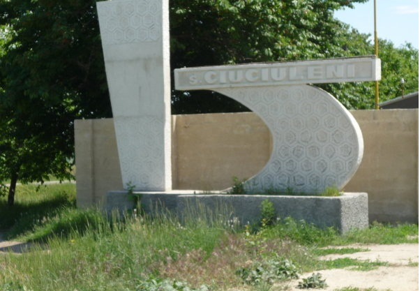 Fata scolii!Liceul Teoretic Alexandru Donici Prida Ion Creator